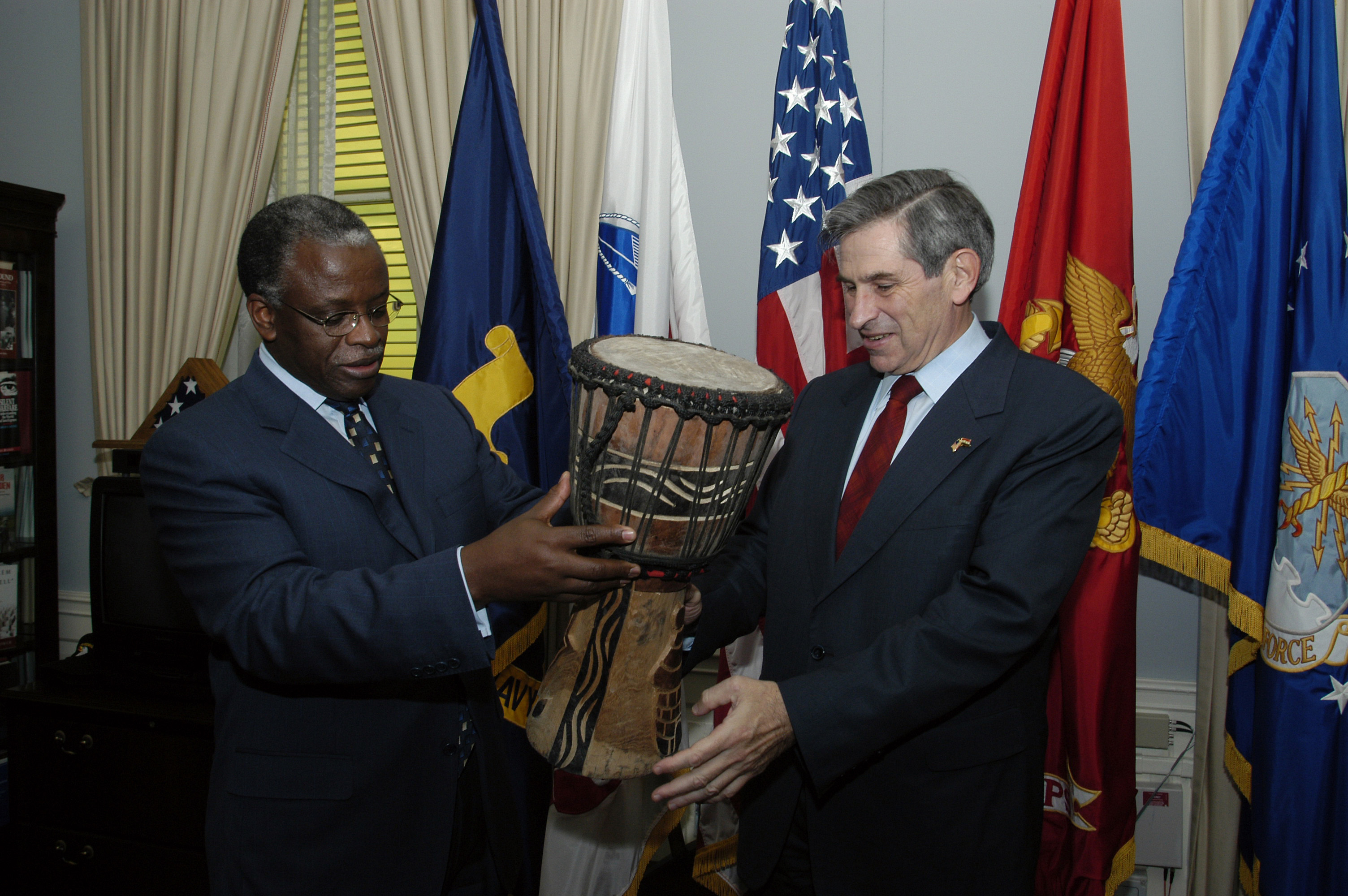 Minister of Defense Amama Mbabazi of Uganda presents a drum as a gift to Deputy Secretary of Defense Paul Wolfowitz. Mbabazi traveled to the Pentagon to meet with leaders on defense issues of mutual interest. United States DoD photograph.